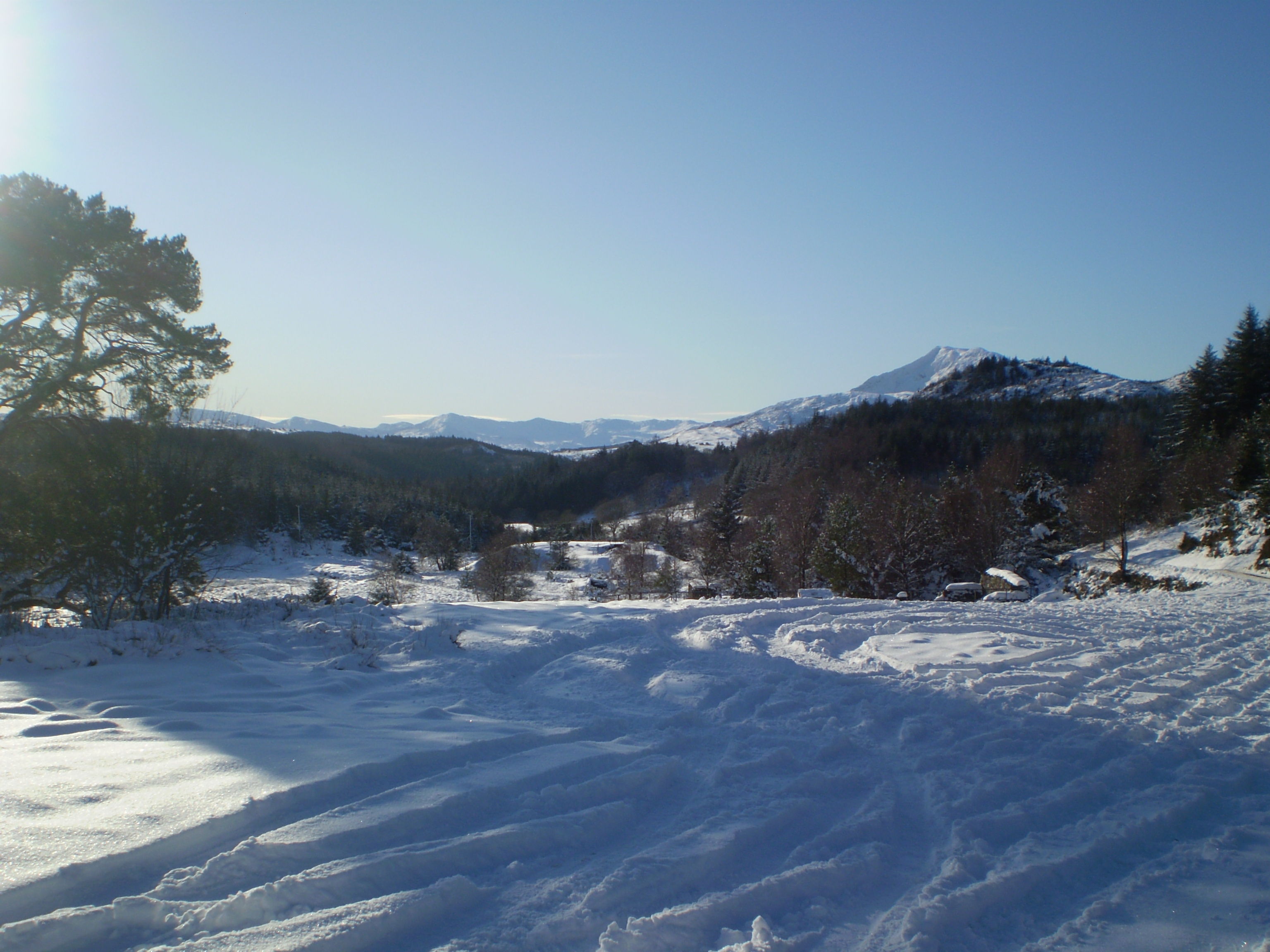 moel siabod mountain from gwydir forest wales